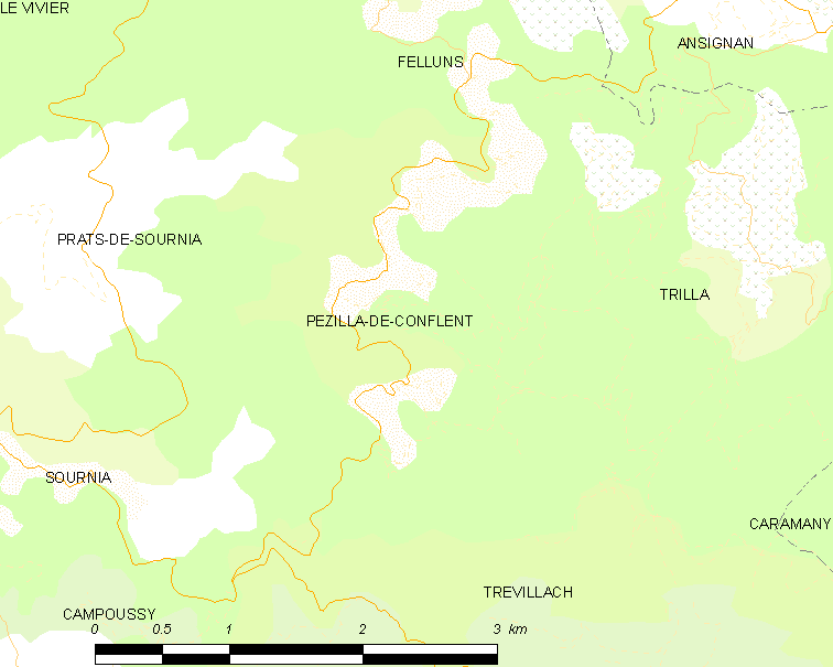 Map of French municipality